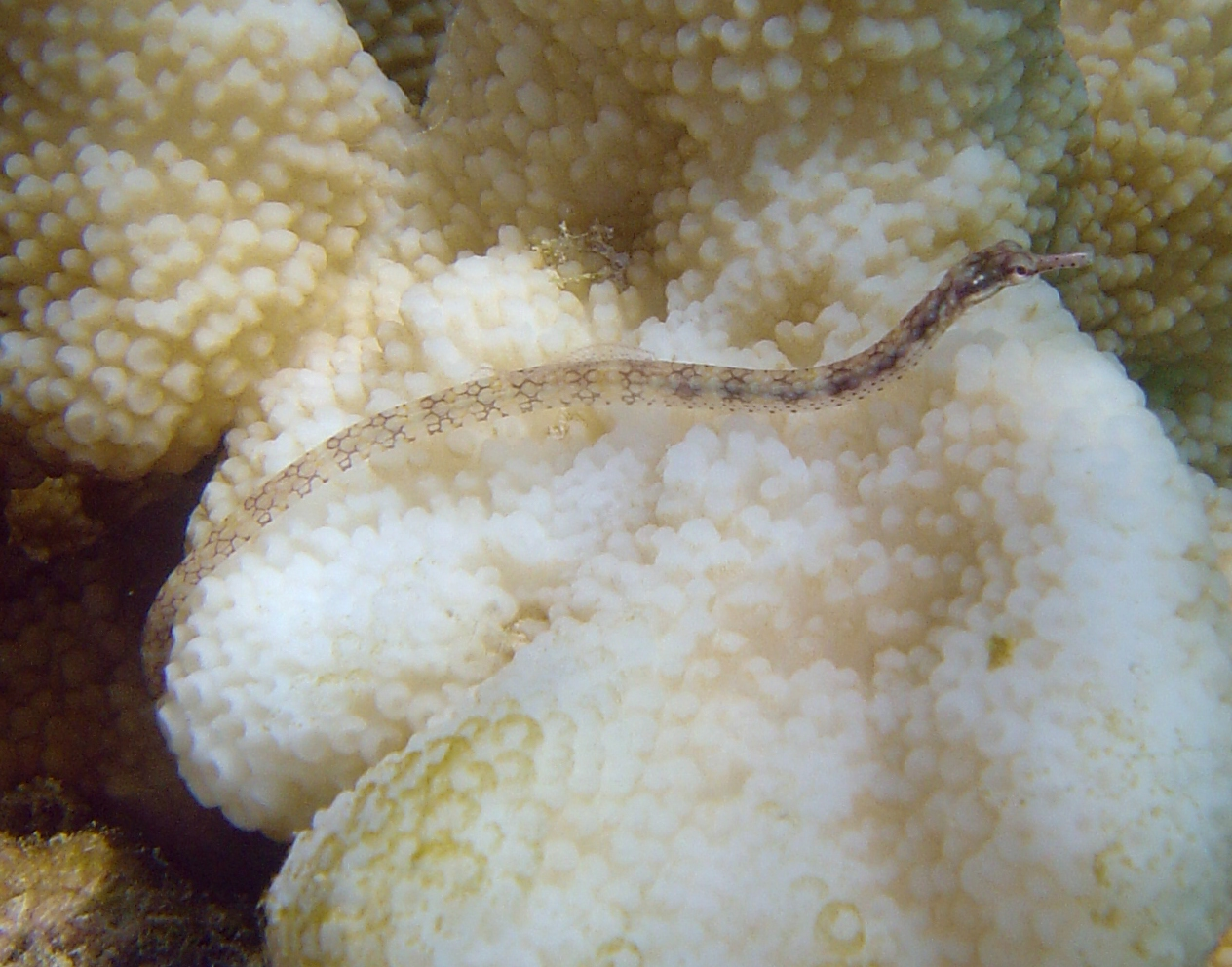 Network pipefish (Corythoichthys flavofasciatus) Image ID: reef0957, NOAA's Coral Kingdom Collection Location: Guam, Mariana Islands